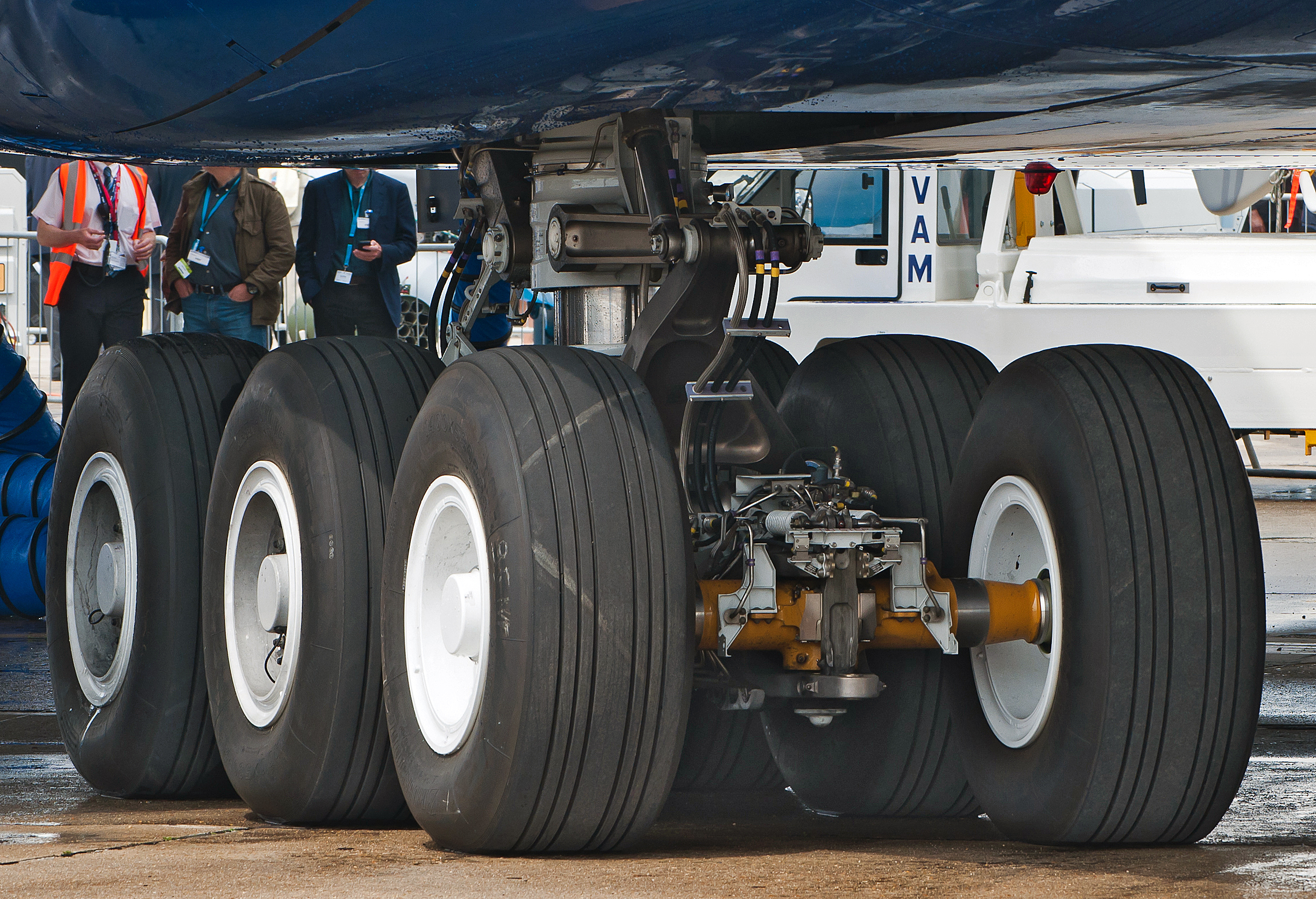 Left central main landing gear, British Airways Airbus A380-841 (reg. F-WWSK, c/n 095, normally G-XLEA) at Paris Air Show 2013.